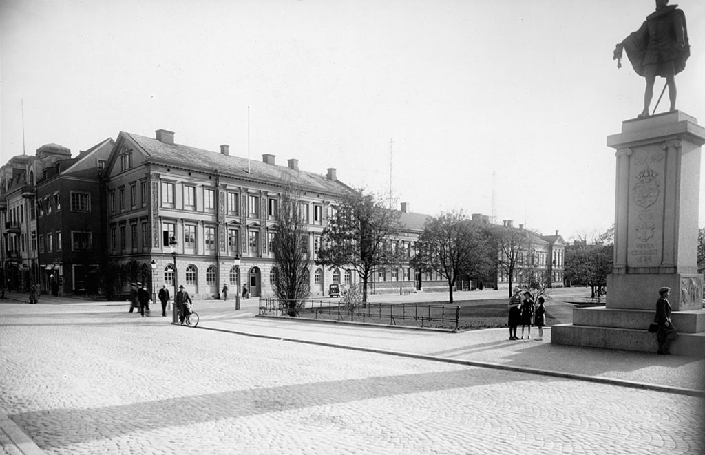 Residenstorget (Residence Square) in Karlstad. The Telegraph Office building rightmost in the row of houses. Statue of king Karl IX to the right in the picture. Format: Silver gelatin print